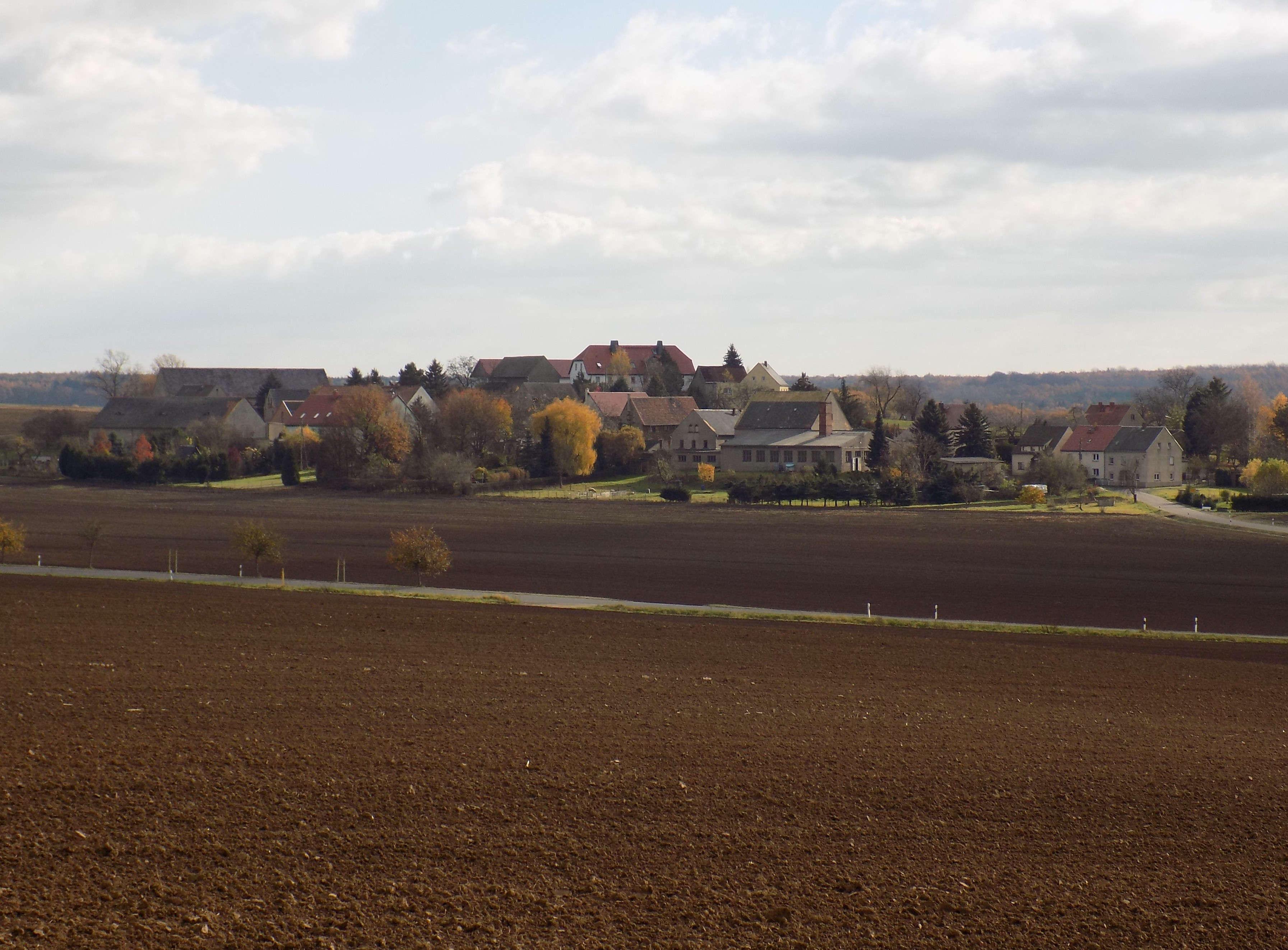 View of Naundorf from Schkortitz (Grimma, Leipzig district, Saxony)